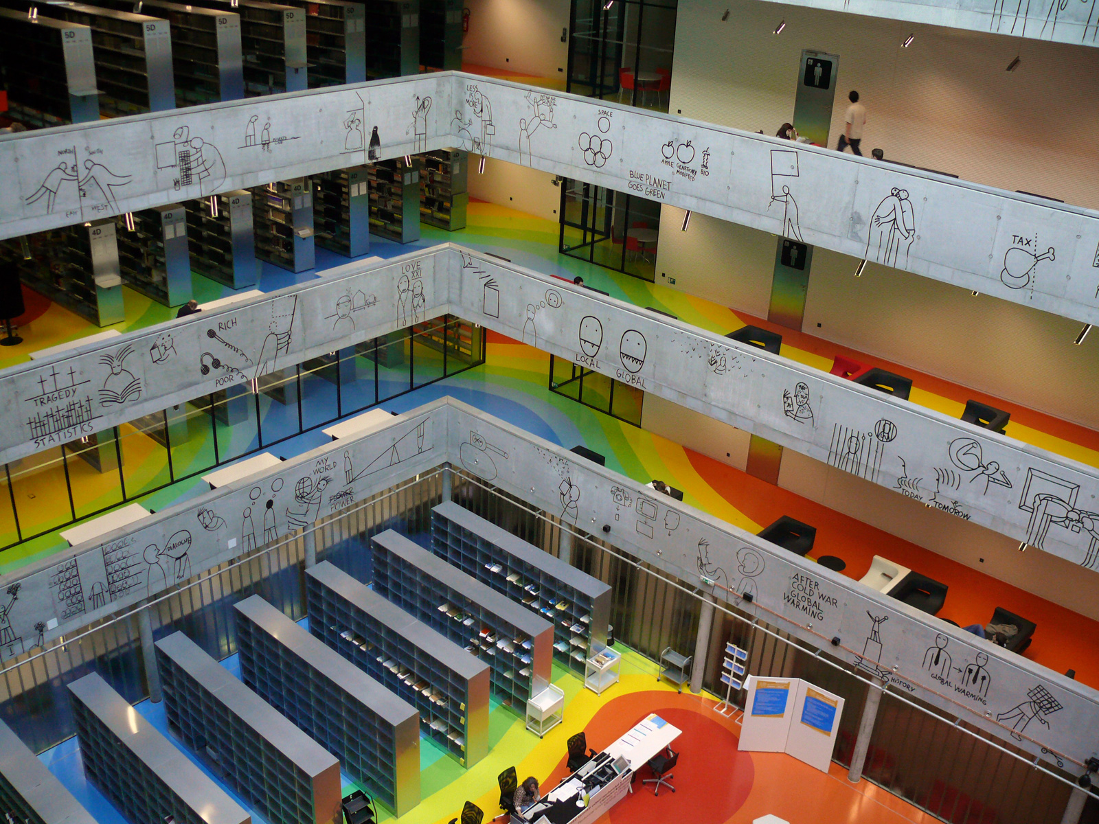 NTK (Prague, CZ)